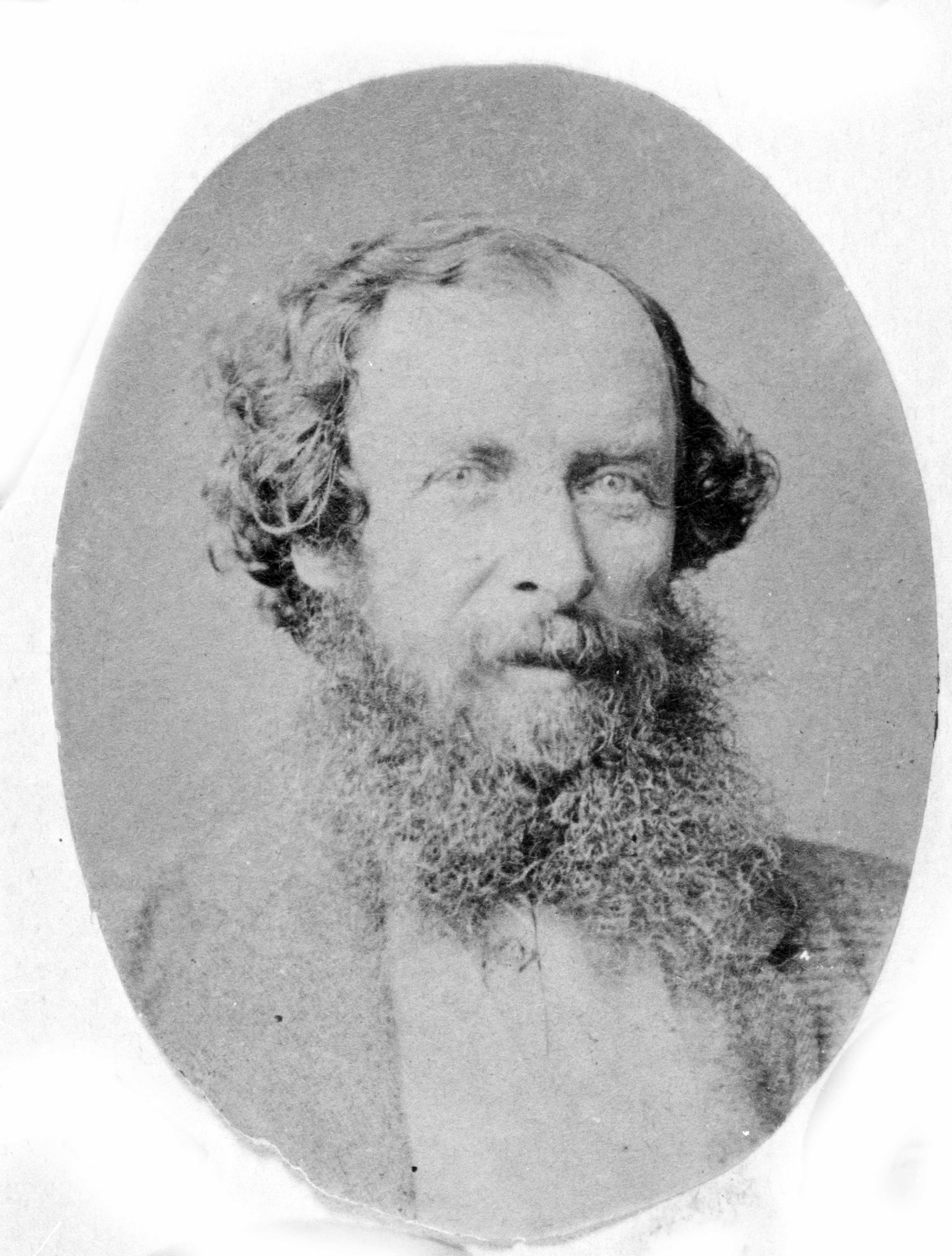 John Hunter Kerr was a pioneer pastoralist and photographer in victoria Australia